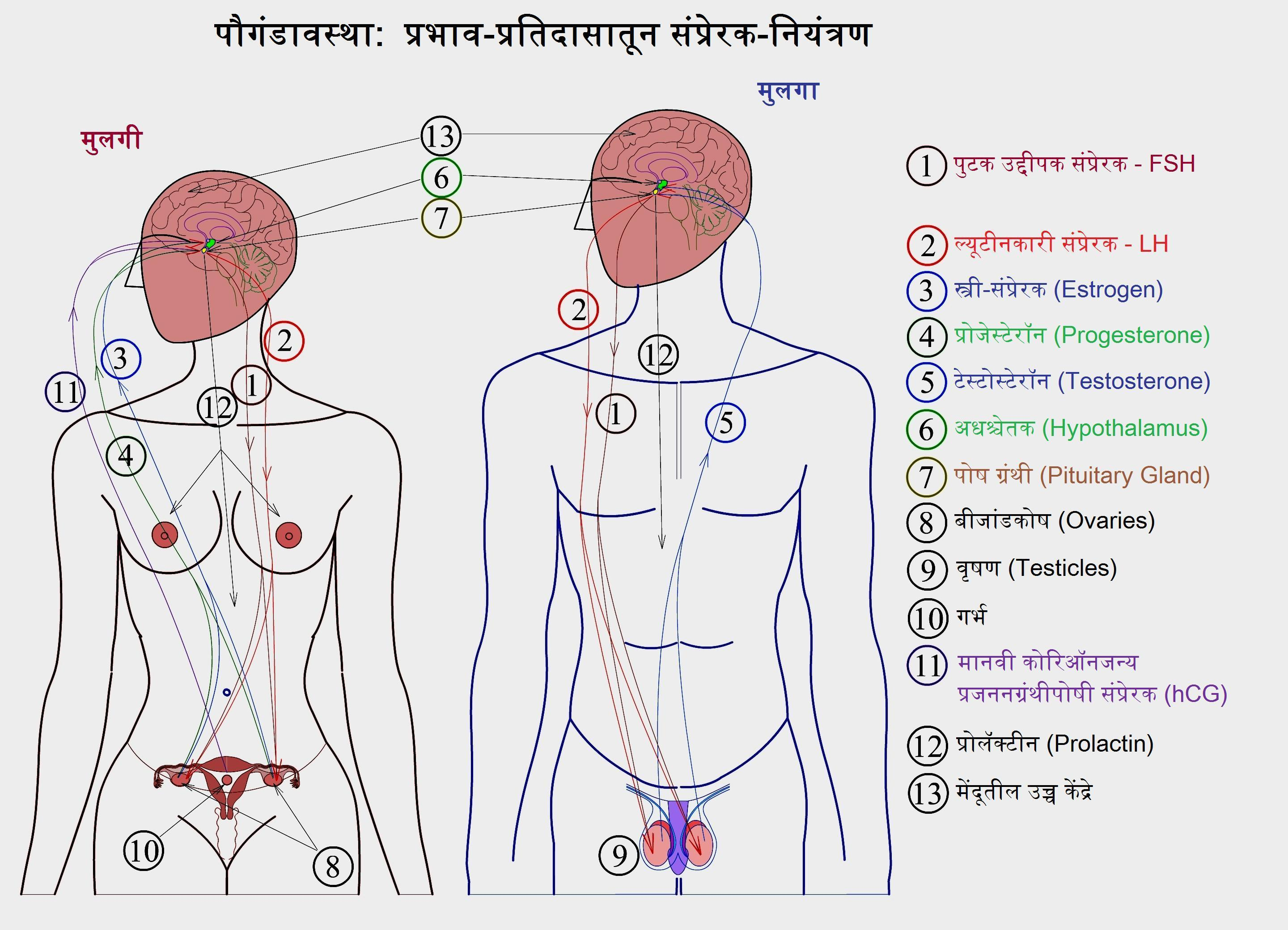 The figure shows endocrine and hormonal control, through stimulation and feedback mechanisms, on sexual growth and development during and after Puberty.